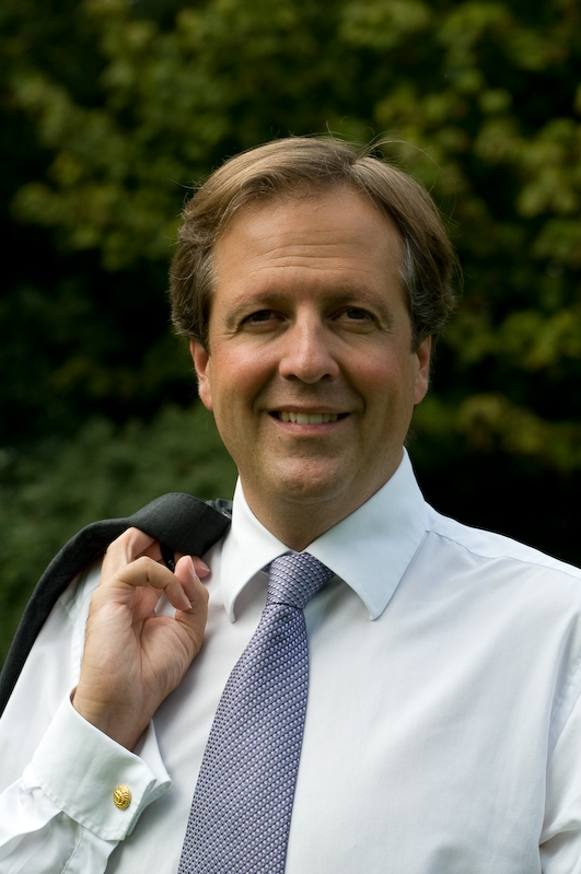 Alexander Pechtold, Dutch politician